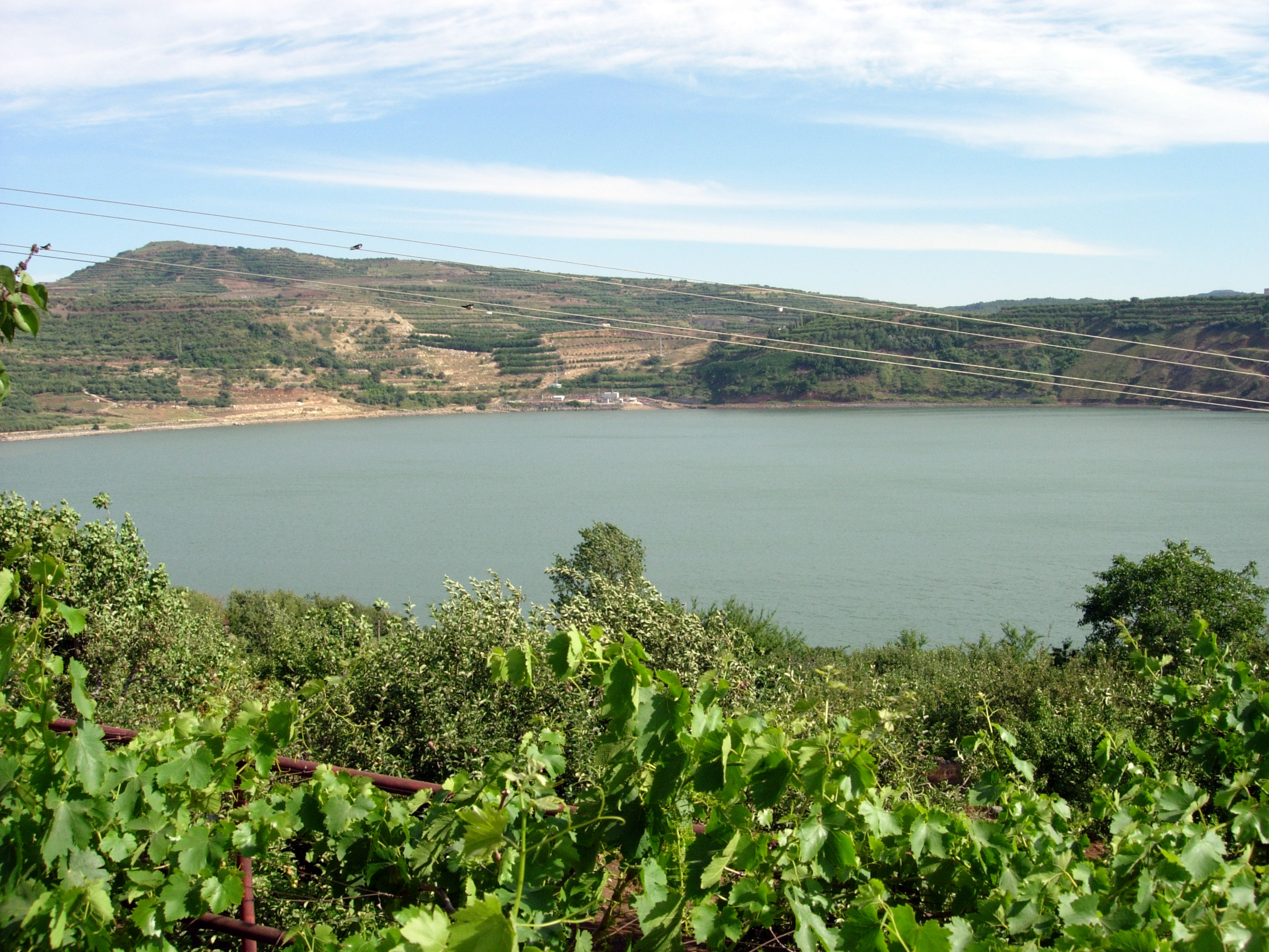 Photograph taken by Mark A. Wilson (Department of Geology, The College of Wooster). [1]